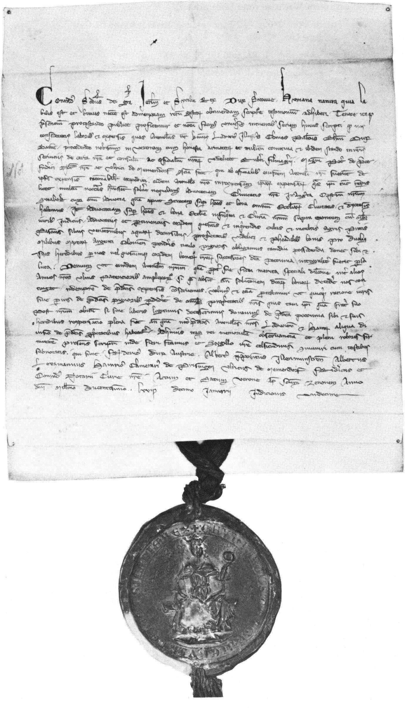 Charter of king Conradin for Louis II, Duke of Bavaria, issued on January 10th, 1268 at Verona. München, Bayerisches Hauptstaatsarchiv, Kaiserselekt 821.